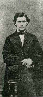 1863 photo of John Furbish of Brunswick, Maine